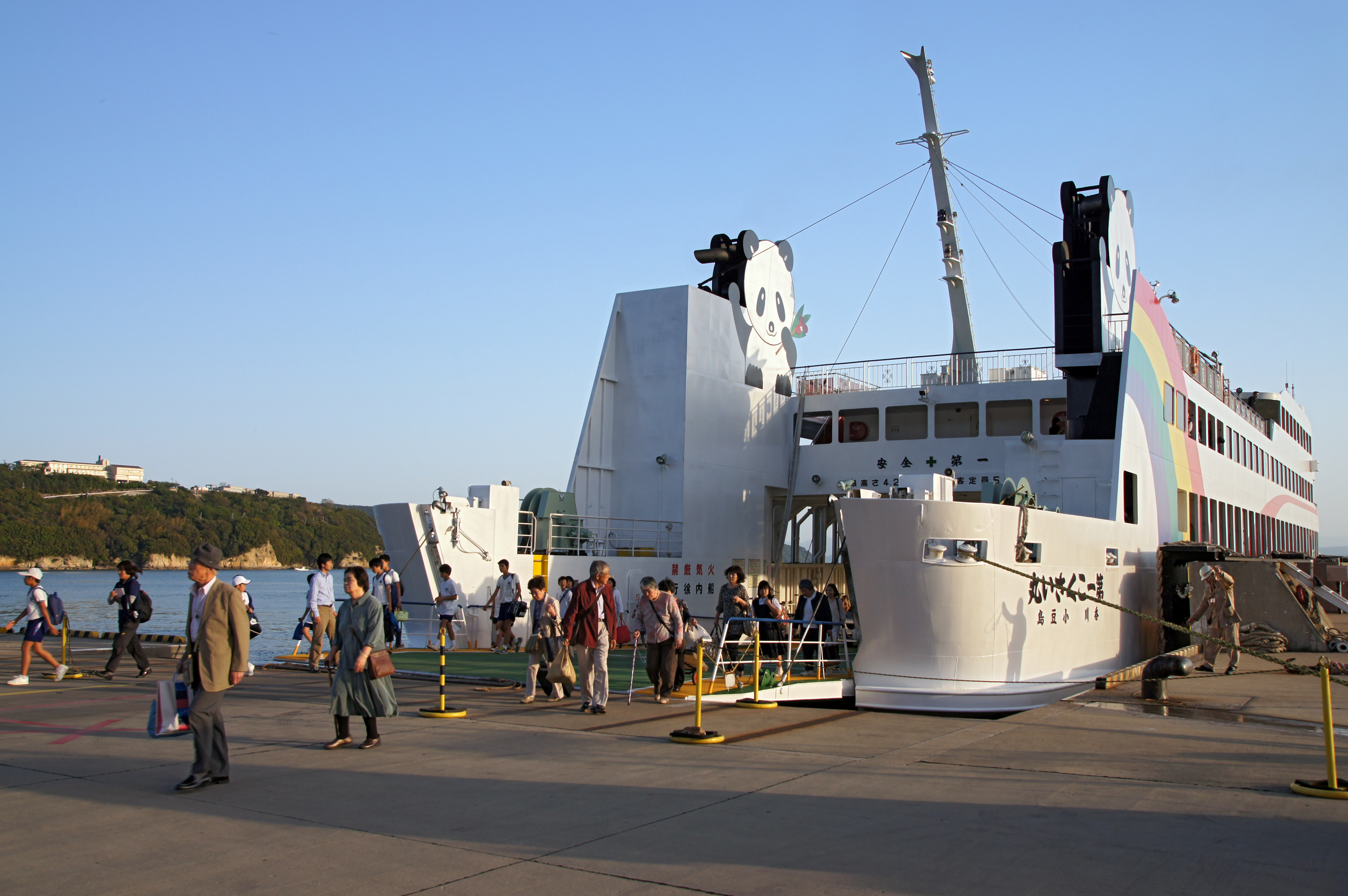 Ikeda Port of Shodo Island in Shodoshima, Kagawa prefecture, Japan